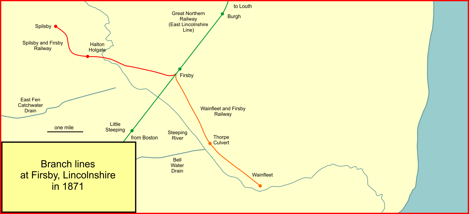 Diagram of railway lines around Firsby, Lincolnshire, England in 1871, including the Spilsby and Wainfleet branches